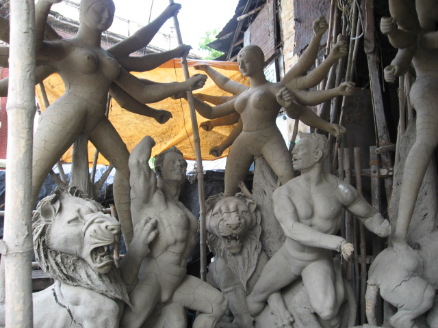 Clay images under preparation at Kumortuli, Calcutta's potters' town. The ten handed goddess with her lion is Durga, the images are prepared for the festival Durgapuja.